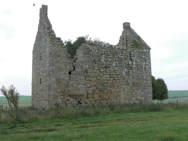 Pittarthie Castle. A 17th century fortified house, associated with the Bruce family; now in a ruinous state.